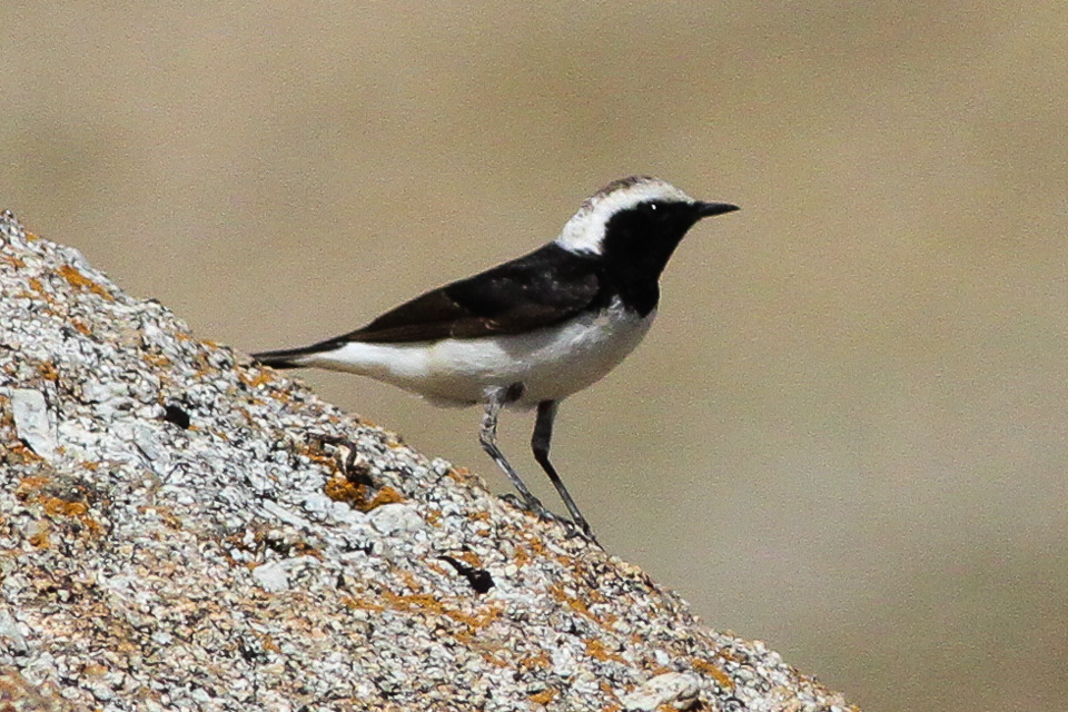 Pied Wheatear Oenanthe pleschanka, Zeravshan Range,Samarkand